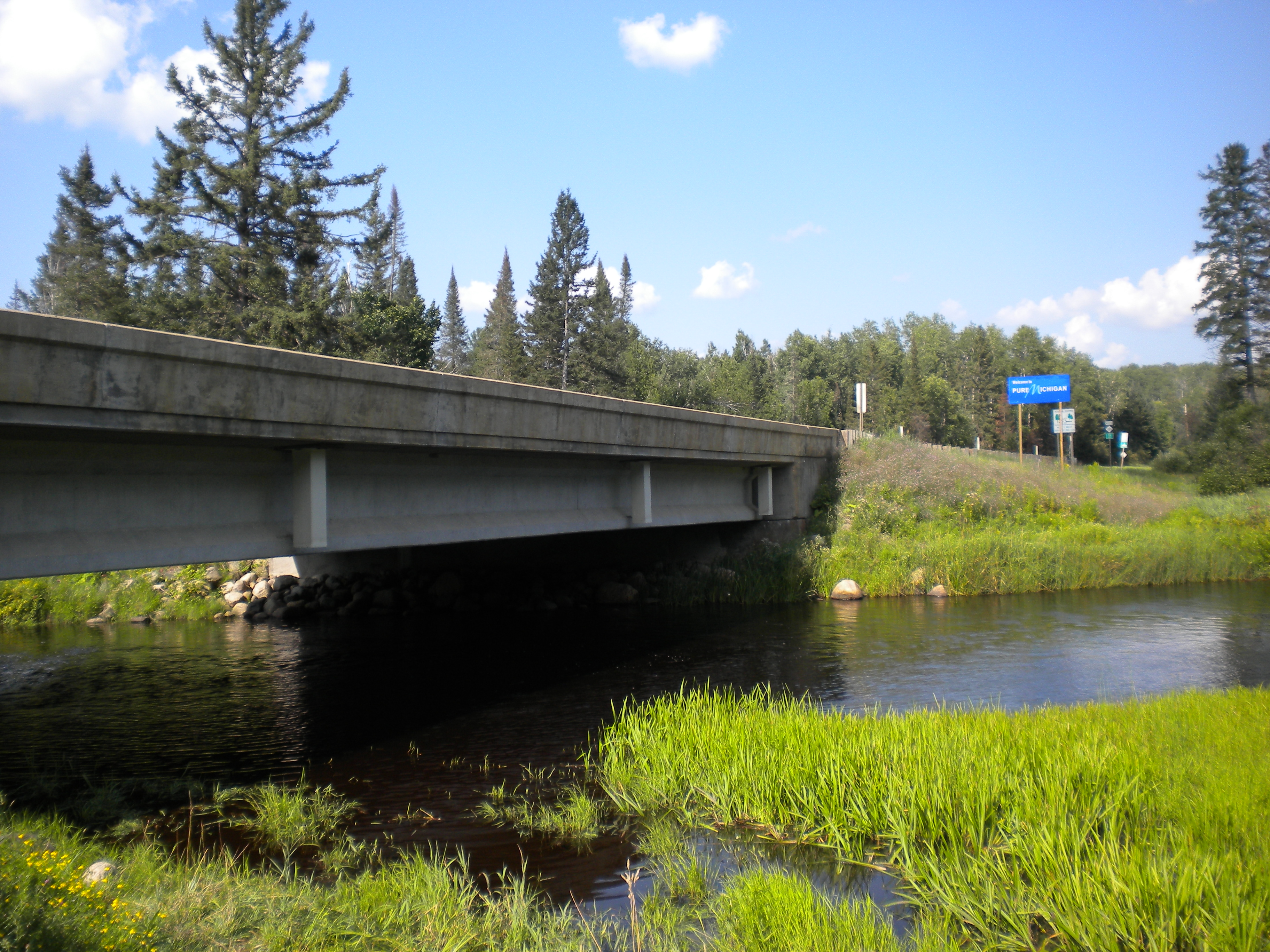 The bridge over the Brule River which is used by M-189 (Michigan highway) and Wisconsin Highway 139 as they intersect on the Michigan-Wisconsin state border.